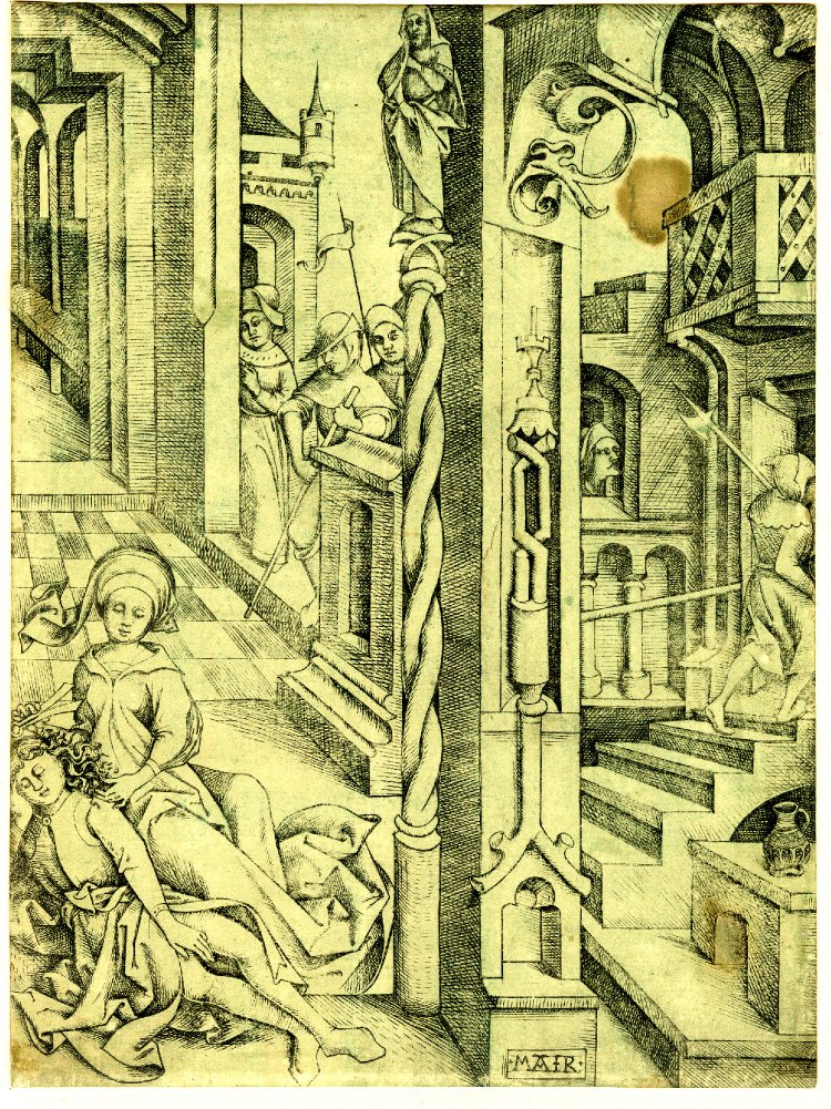 Samson and Delilah; Samson lies to the left while Delilah cuts his hair off. Engraving, by Mair von Landshut, on light-green prepared paper